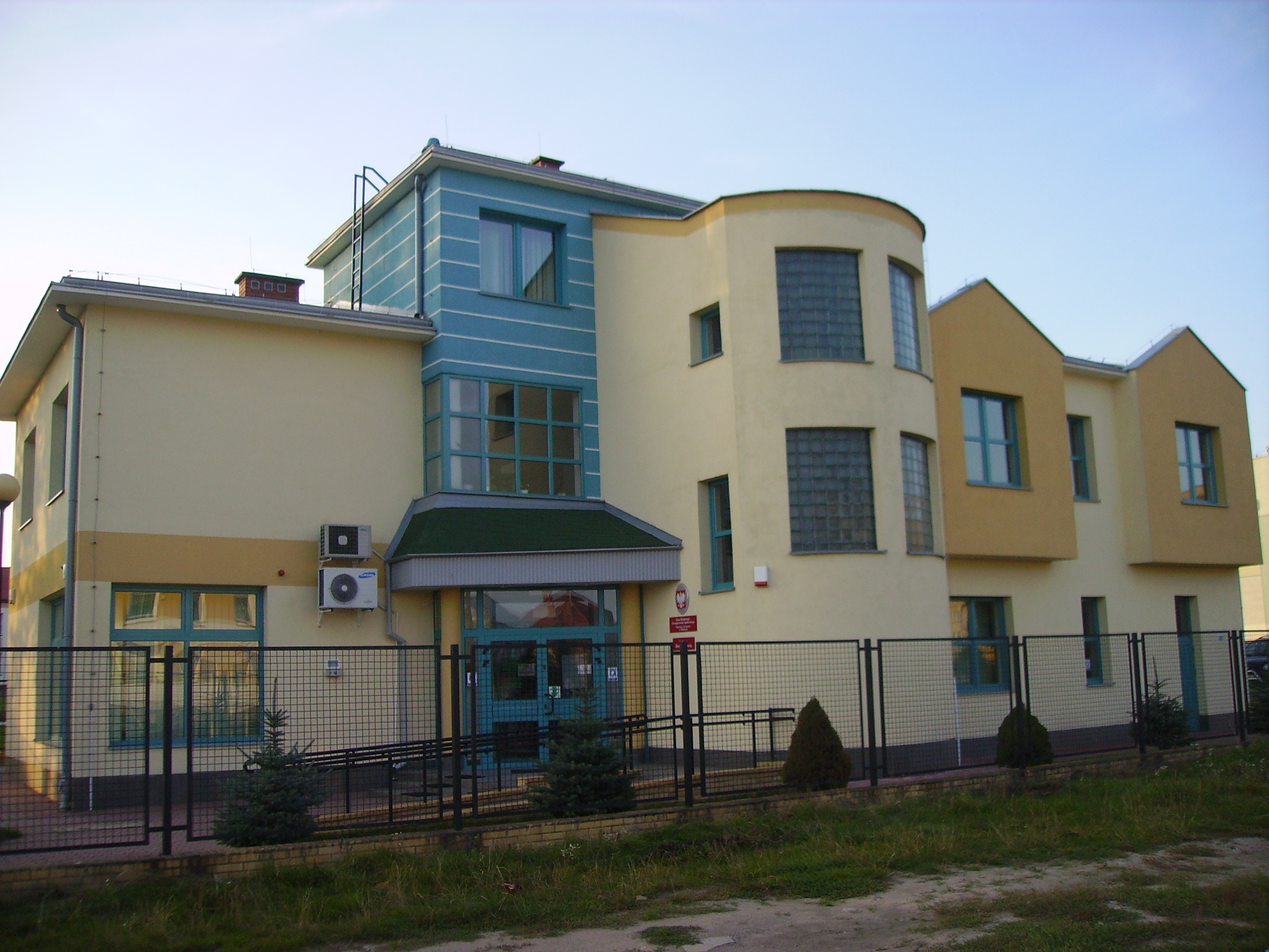 Monki, Tysiąclecia 19A Street (Poland). Agricultural Social Insurance Fund